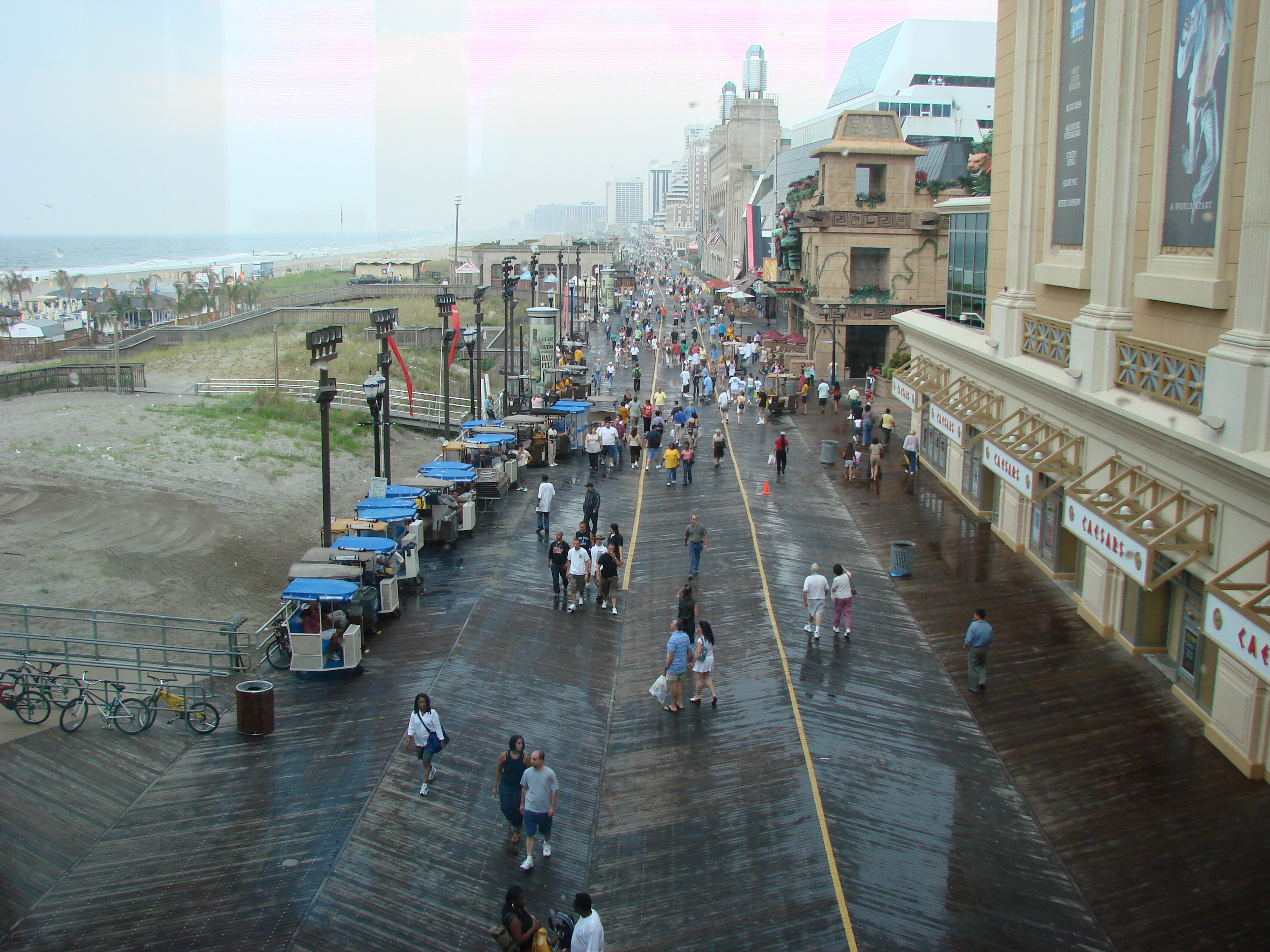 Atlantic City (NJ) - The boardwalk in a rainy day